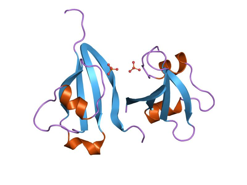 Cartoon representation of the molecular structure of protein registered with 1dks code.